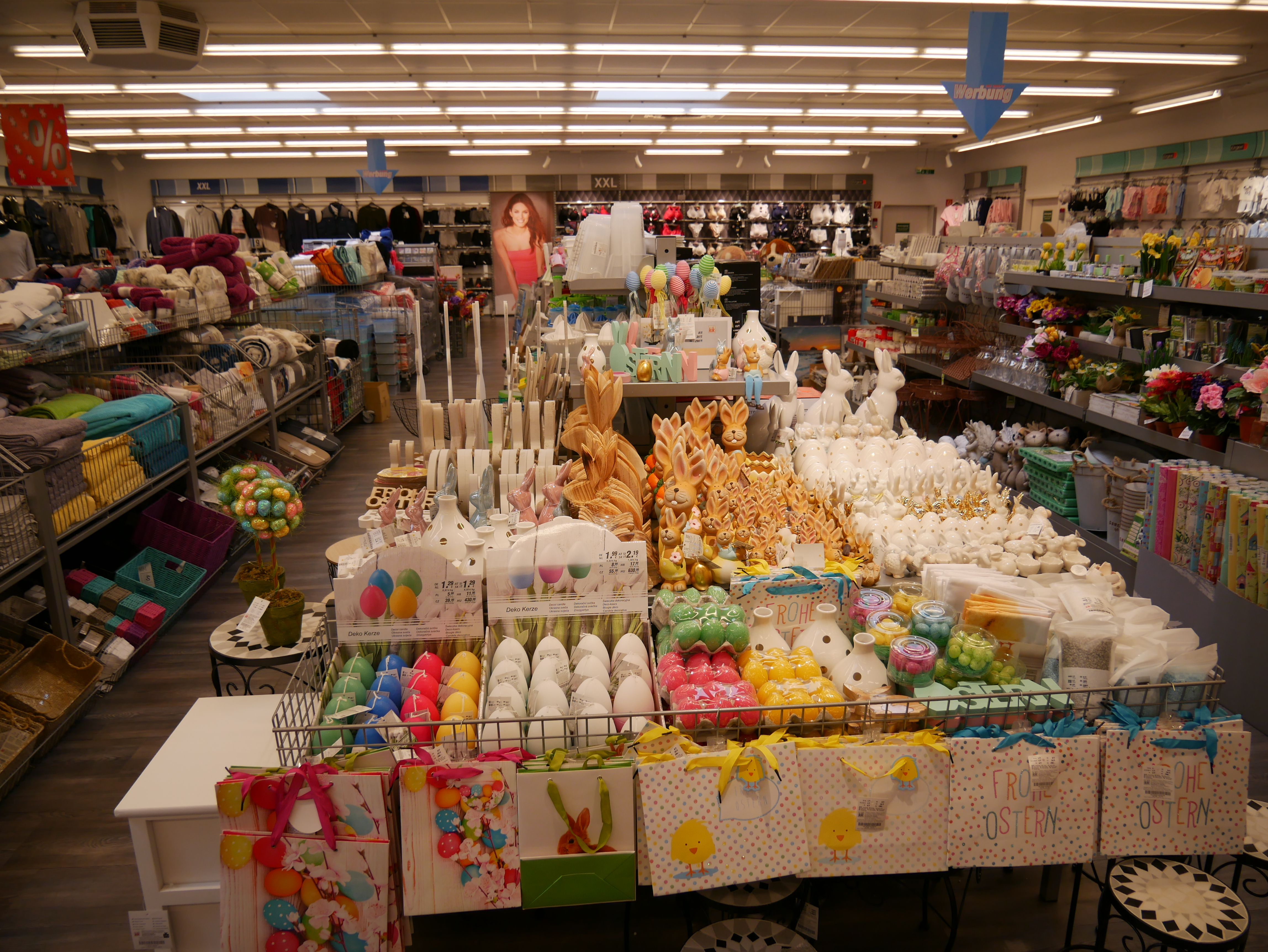 KiK Filiale